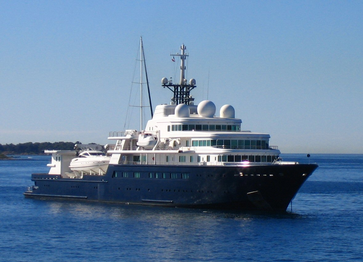 Le Grand Bleu (Cannes, 2006).